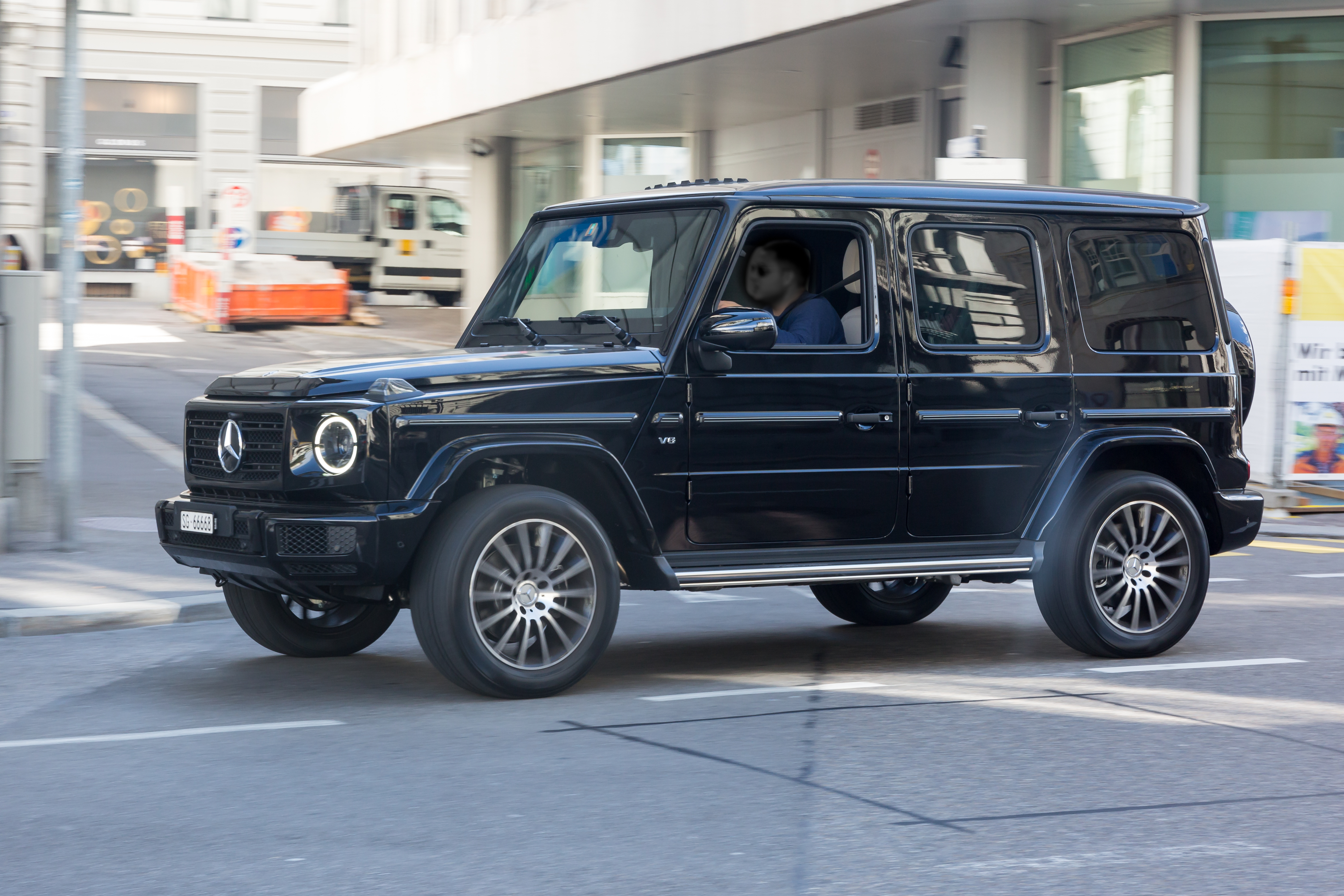 Mercedes-Benz G 500